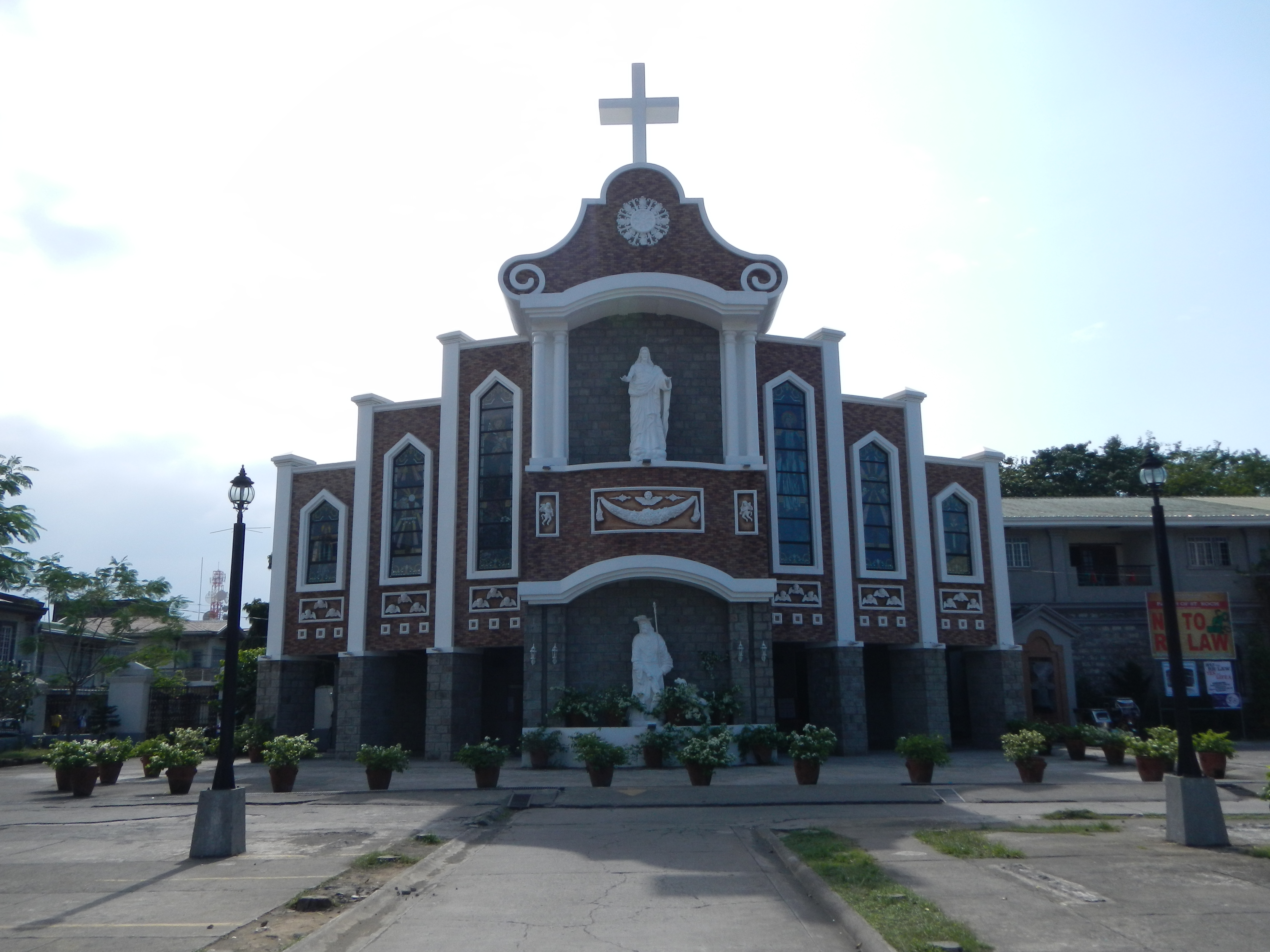 Upload Wizard photos of - the Saint Roch Parish Church of Lemery [1] Vicariate II – St. John Maria Vianney - belongs to the [2] Roman Catholic Archdiocese of Lipa - Illustre Ave., in front of the Municipal Hall of Lemery, [3] [4] [5] - Town Proper, Centro, downtown and junction, crossing - Lemery, Batangas[6] near the 8-kilometer Pansipit River [7] (a short river located in the Batangas province of the Philippines, the sole drainage outlet of Taal Lake, which empties to Balayan Bay. The river stretches about 9 kilometres (5.6 mi) passing along the towns of Agoncillo, Lemery, San Nicolas and Taal serving as border between the communities. It has a very narrow entrance from Taal Lake [8] [9] 13° 53' 48.28" N 120° 54' 46.32" E[10] [11]Coordinates: 13°52'40"N 120°55'2"E [12]13° 55' 37.15" N 120° 56' 46.21" E [13] Summer heat arrives in Lemery, Batangas [14] Batangas tilapia breeders fight for survival) and the - Lemery Municipal Hall[15] Coordinates: 13°53'0"N 120°54'50"E St. Mary's Educational Institute [16] Coordinates: 13°52'59"N 120°54'47"E.